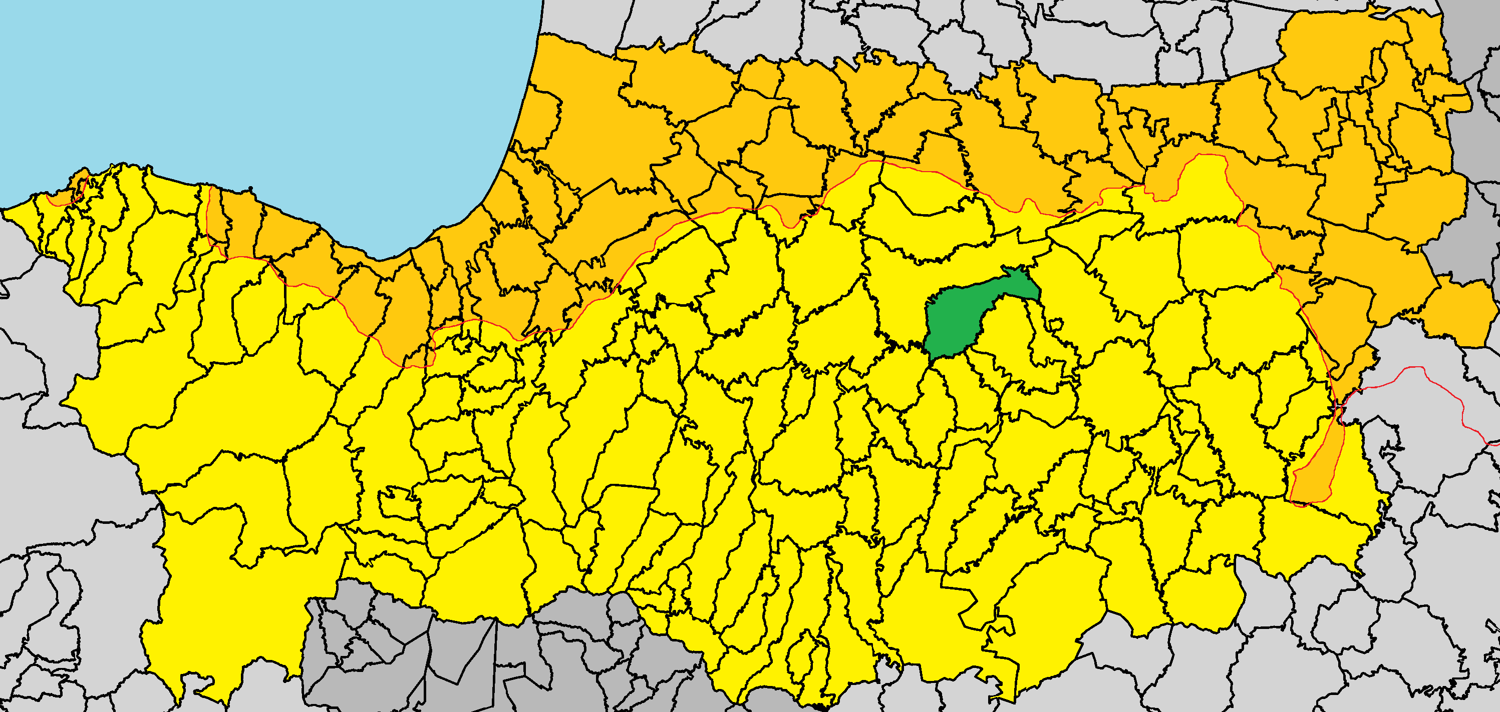 Agioi Trimithias in Nicosia District.